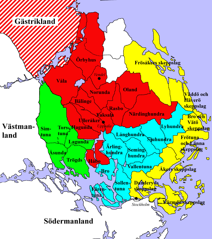 The Folklands of Svitjod (Uppland / Gästrikland) Tiunda Attunda Roden Fjärdhundra Gästrikland Note: The coastline has changed considerably during the last millennium, there were for example a sea bay reaching in from the north into Uppsala. Also the Långhundra route (Swedish: Långhundraleden) was open water. This map has been made by using the hundred borders (Swedish: häradsgränser) from the 1900-century. Gästrikland is sometimes included in Tiunda